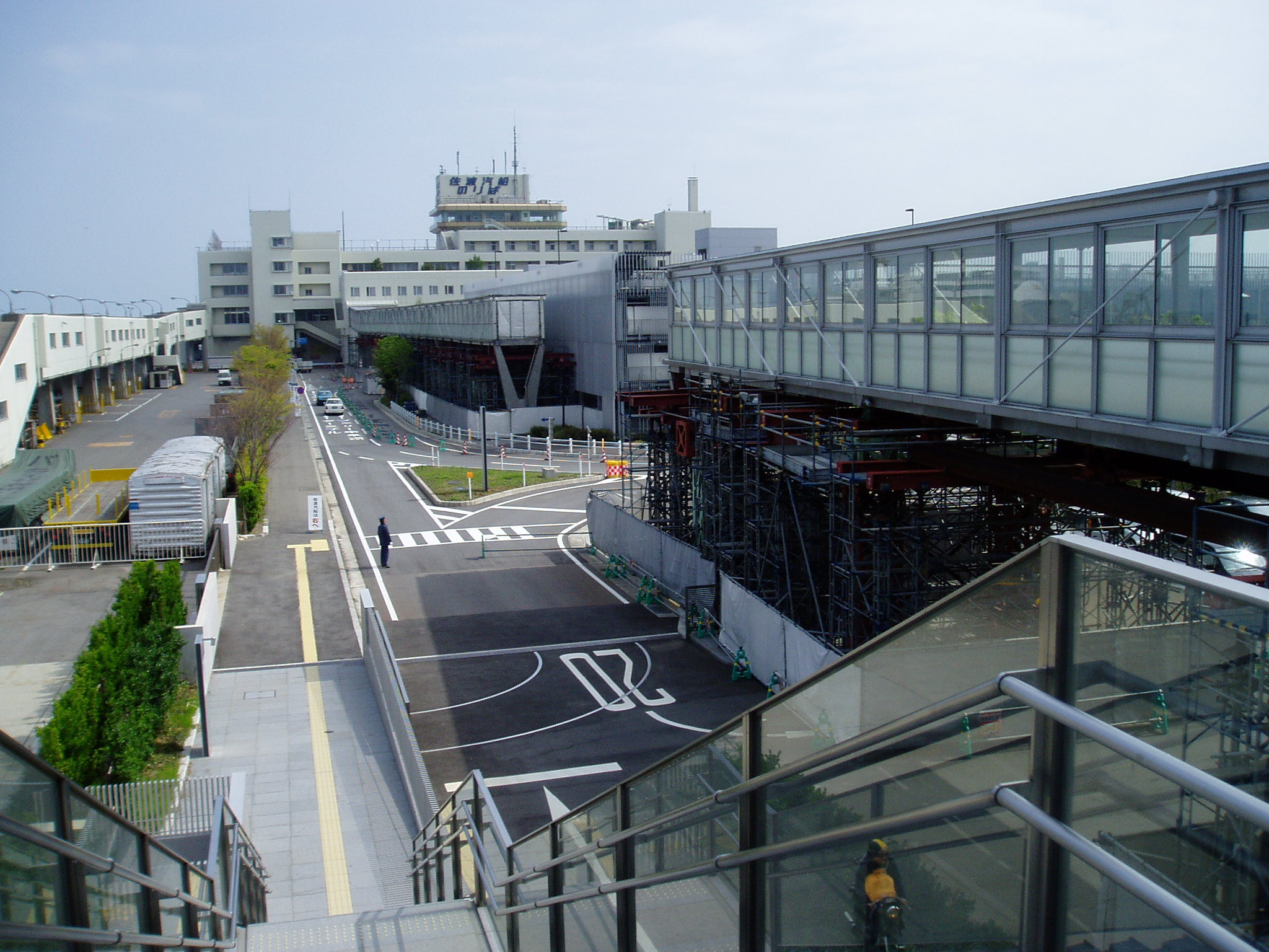 the skybridge collapse site of Toki Messe in Niigata, Niigata, Japan